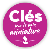 Logo of the Clés pour le train miniature newspaper, France.